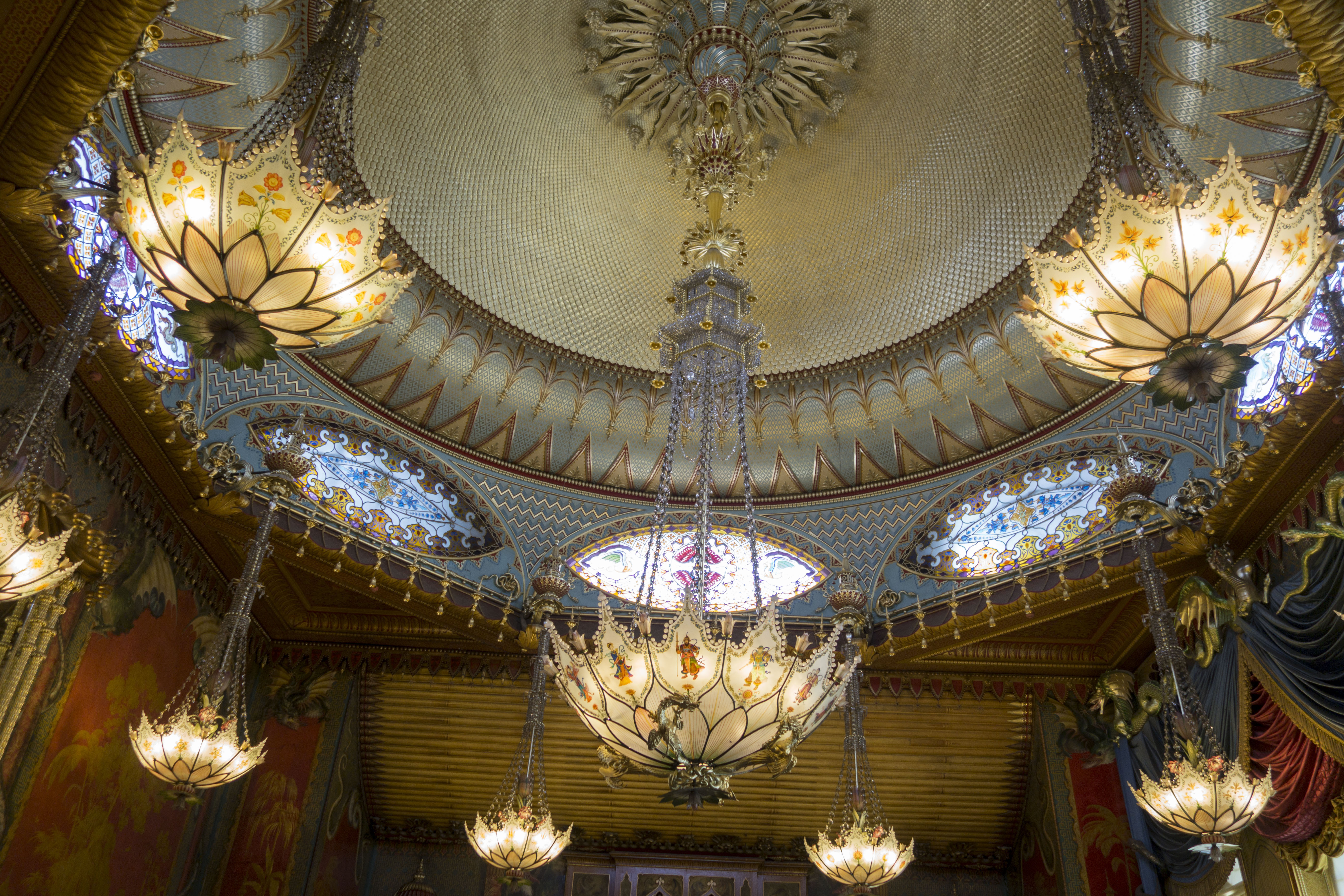 Brighton 2015